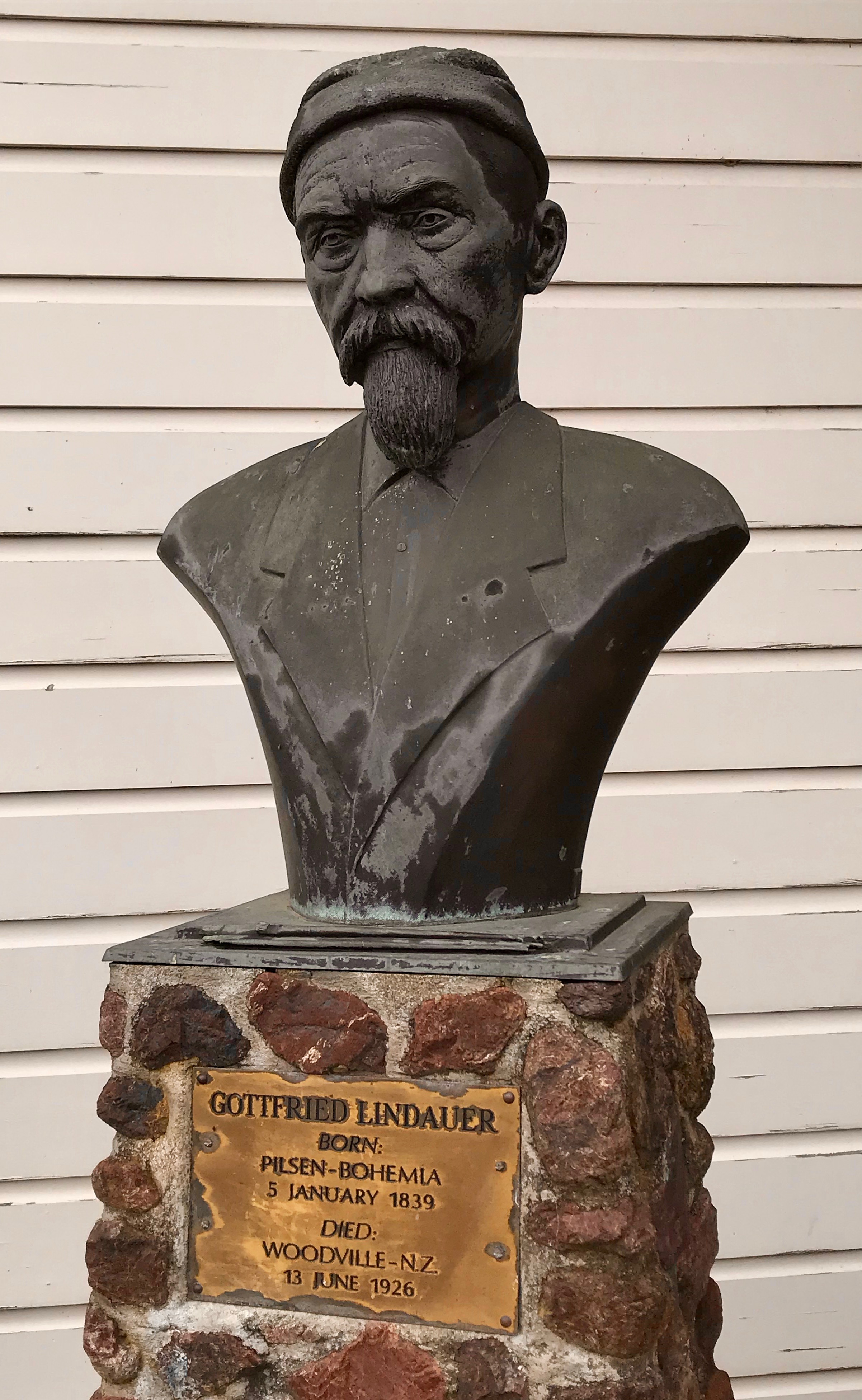 Bust of the artist Gottfried Lindauer in the main street of Woodville, New Zealand (he is buried there)